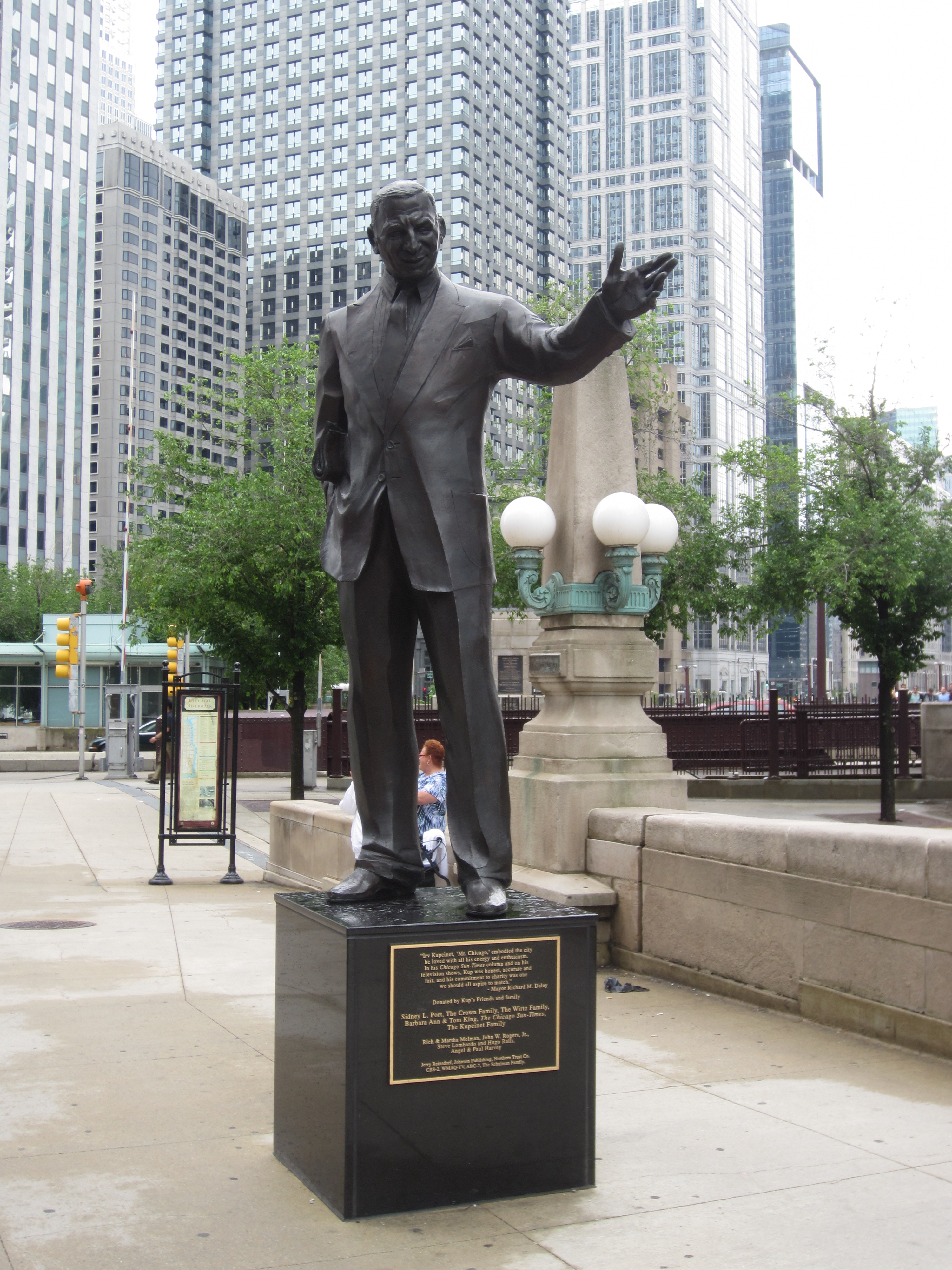 Chicago, Illinois, June 2015